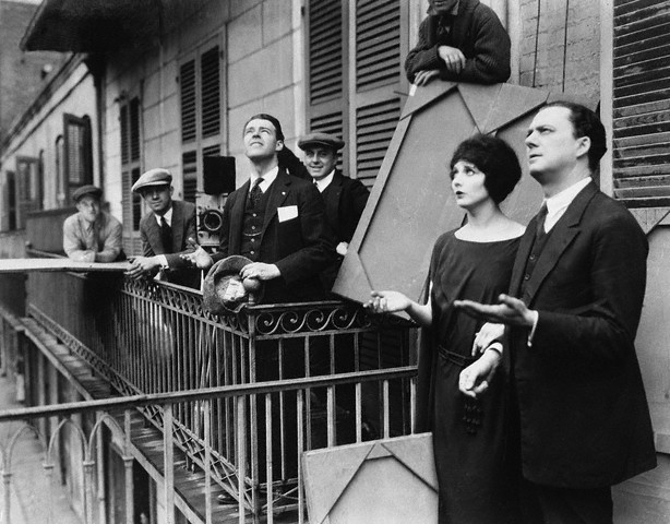 New Orleans, 1922. Pleading With The elements Not To Rain. Kenneth Webb, (director, center), Betty Blythe, Robert Elliot, (extreme right), are shown on location in New Orleans, filming Rex Beach's photoplay "Fair Lady", founded on his famous novel, "The Net".